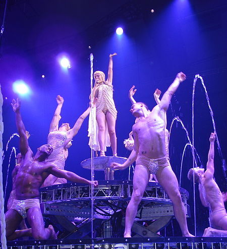 Final scene of the show "Aphrodite - Les Folies Tour 2011" of Kylie Minogue.